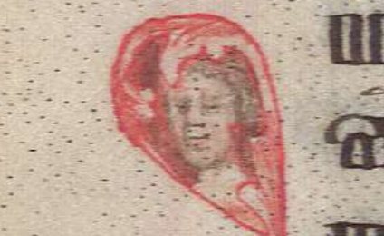 Alleged self-portrait of Bartholomew of Krbava in Berlin misal from 1402. (better version)